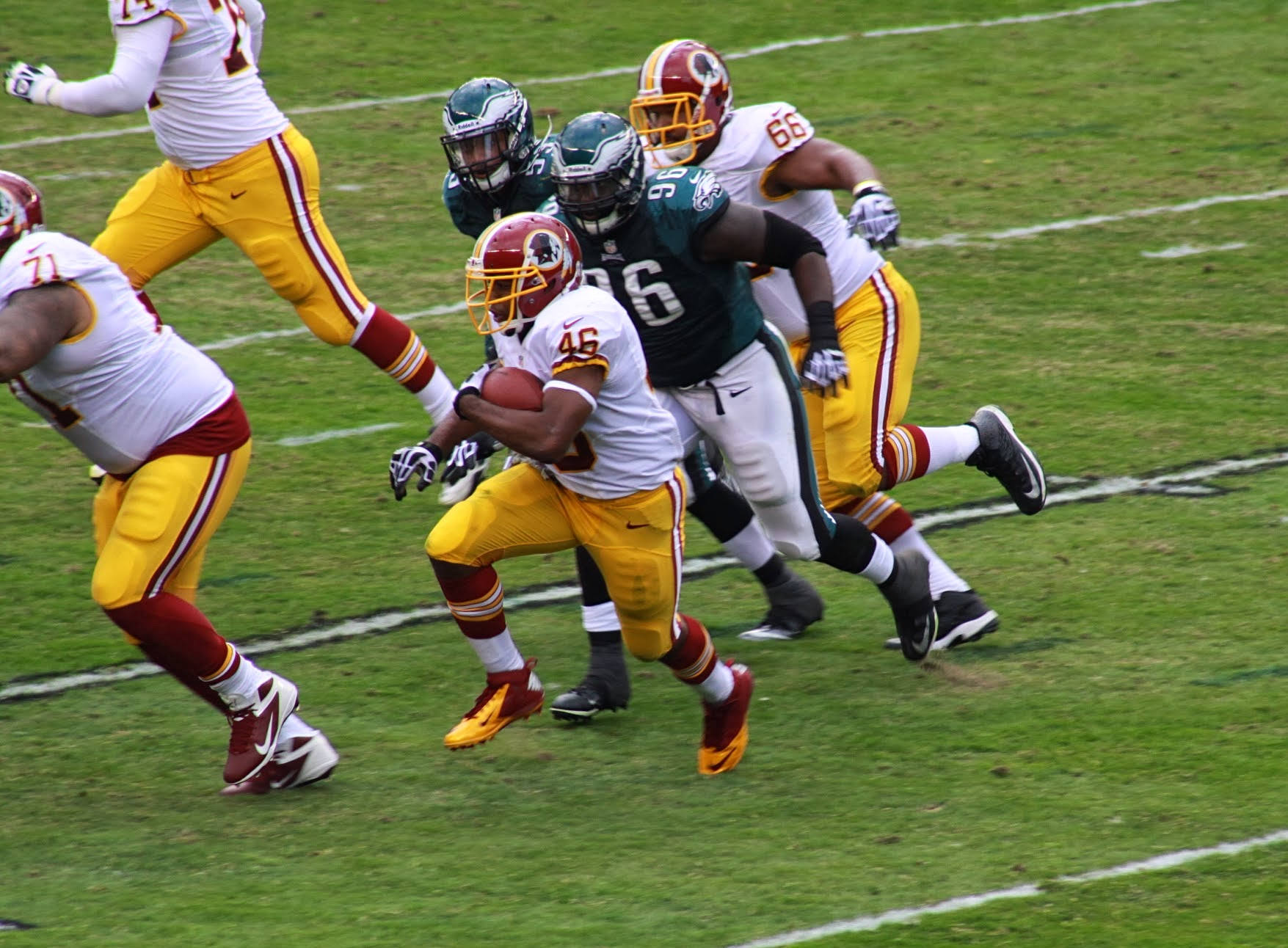 Alfred Morris runs during a 24-16 loss to the Philadelphia Eagles on November 17, 2013.